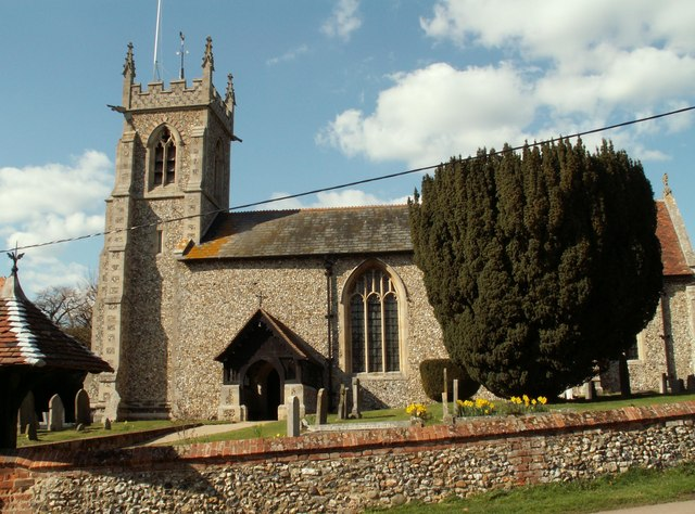 St Mary the Virgin parish church, Widdington, Essex, seen from the south